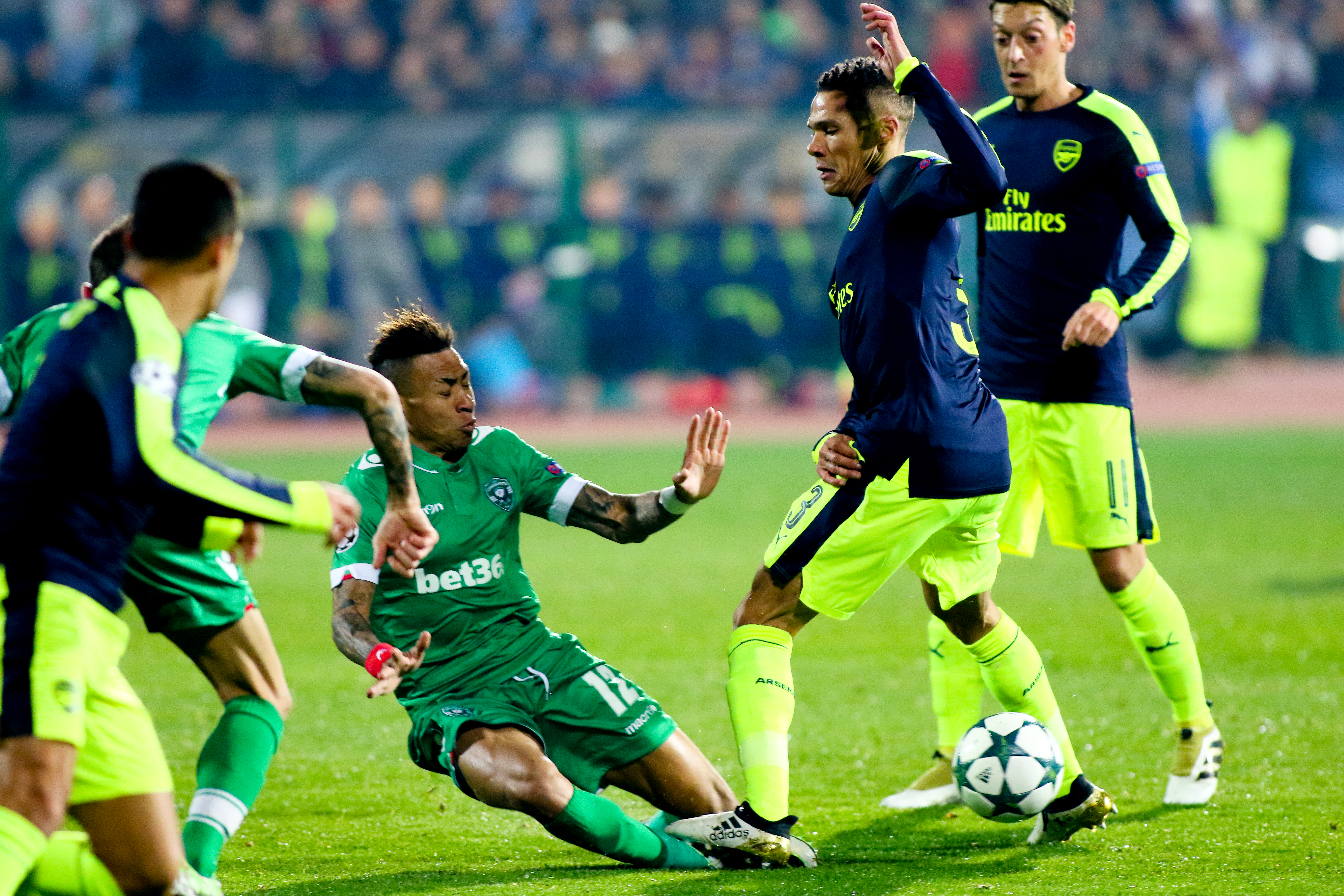 Moment of the match of Champions League - Ludogorets-Arsenal 2-3, 1 November 2016, Sofia, Bulgaria